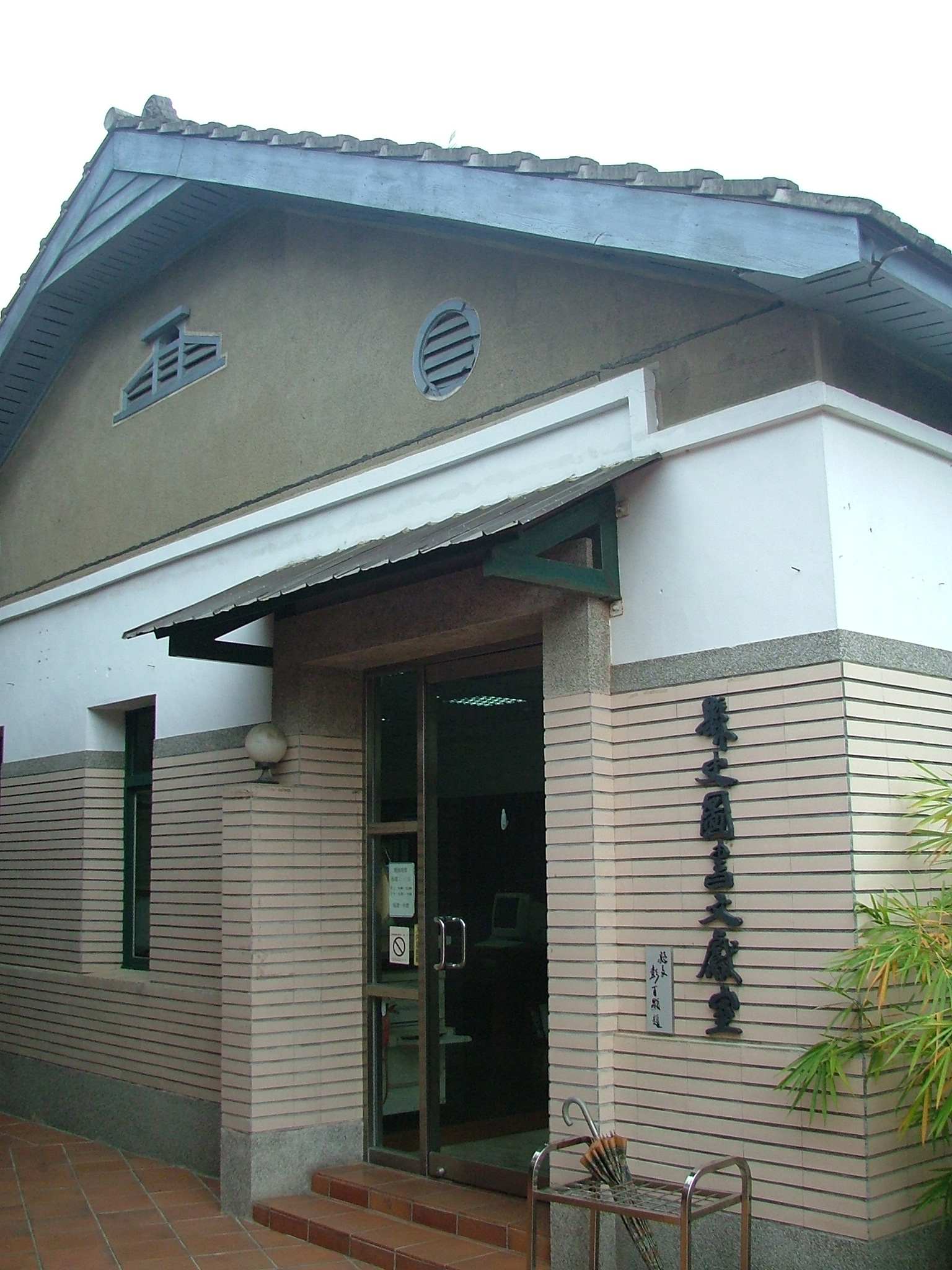 Nantou Country History Reference Hall